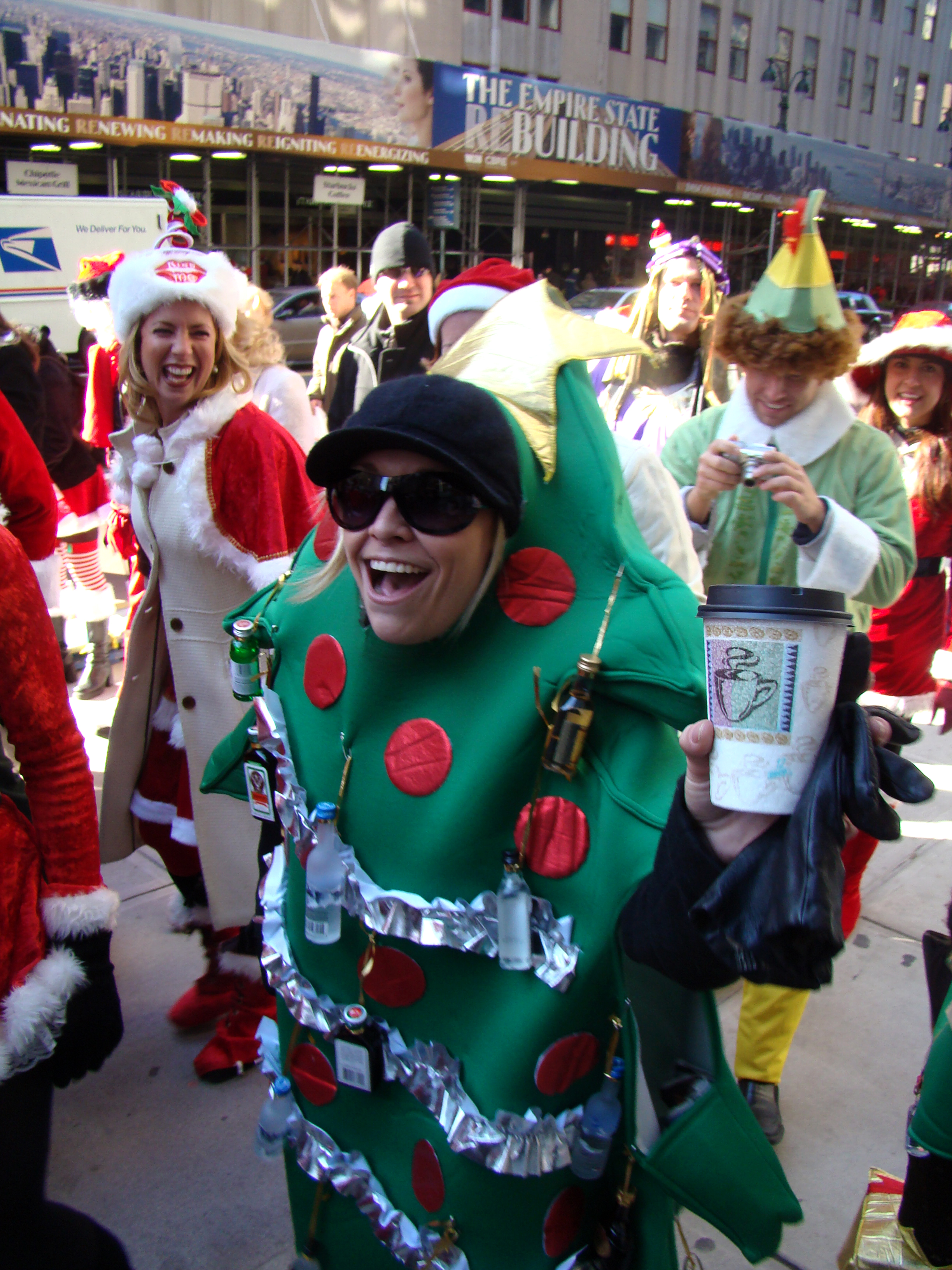 Taken at New York Santacon 2008. If this picture is of you, leave a comment and let me know.